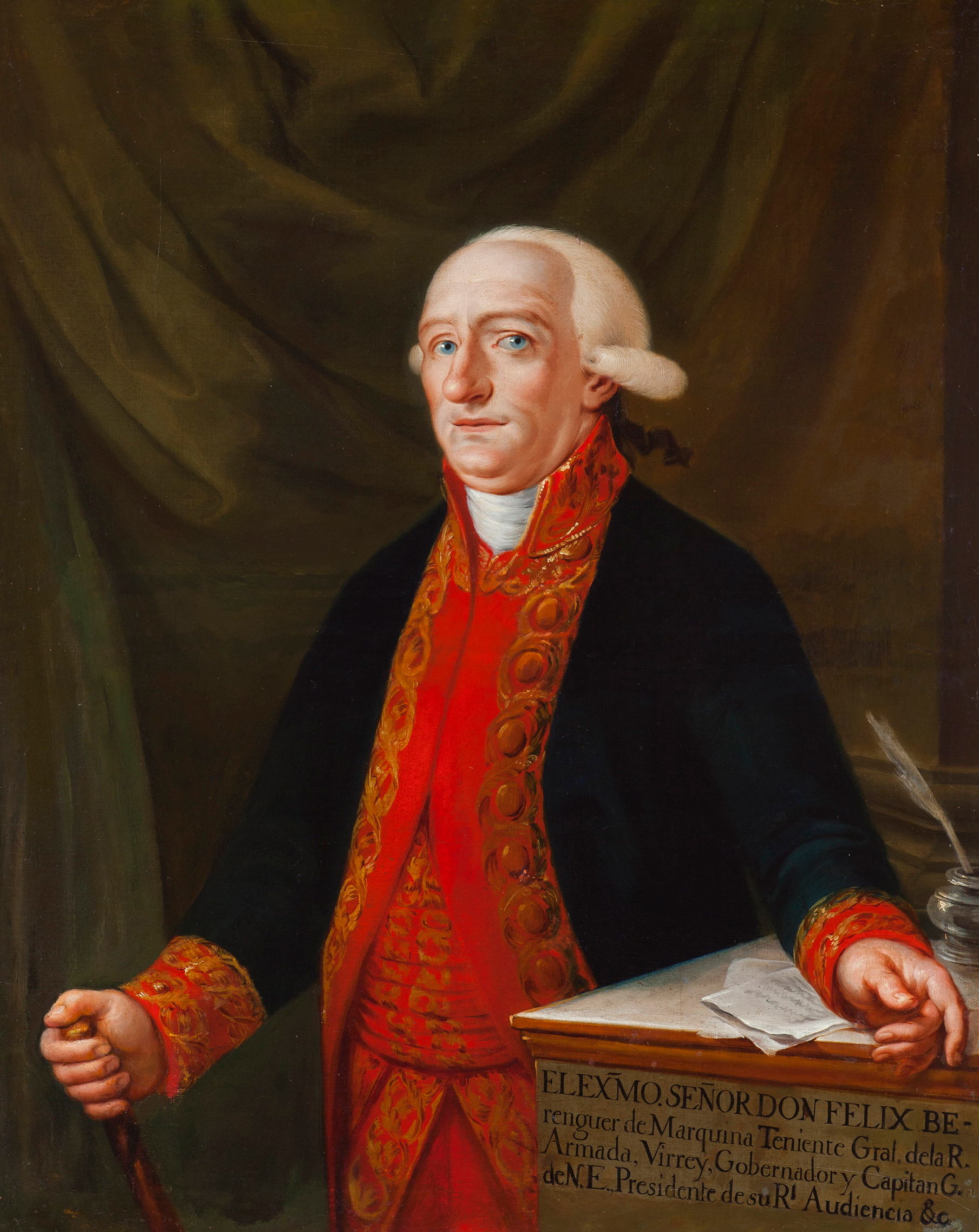 Portrait of Spanish Viceroy Félix Berenguer de Marquina (1733-1826)